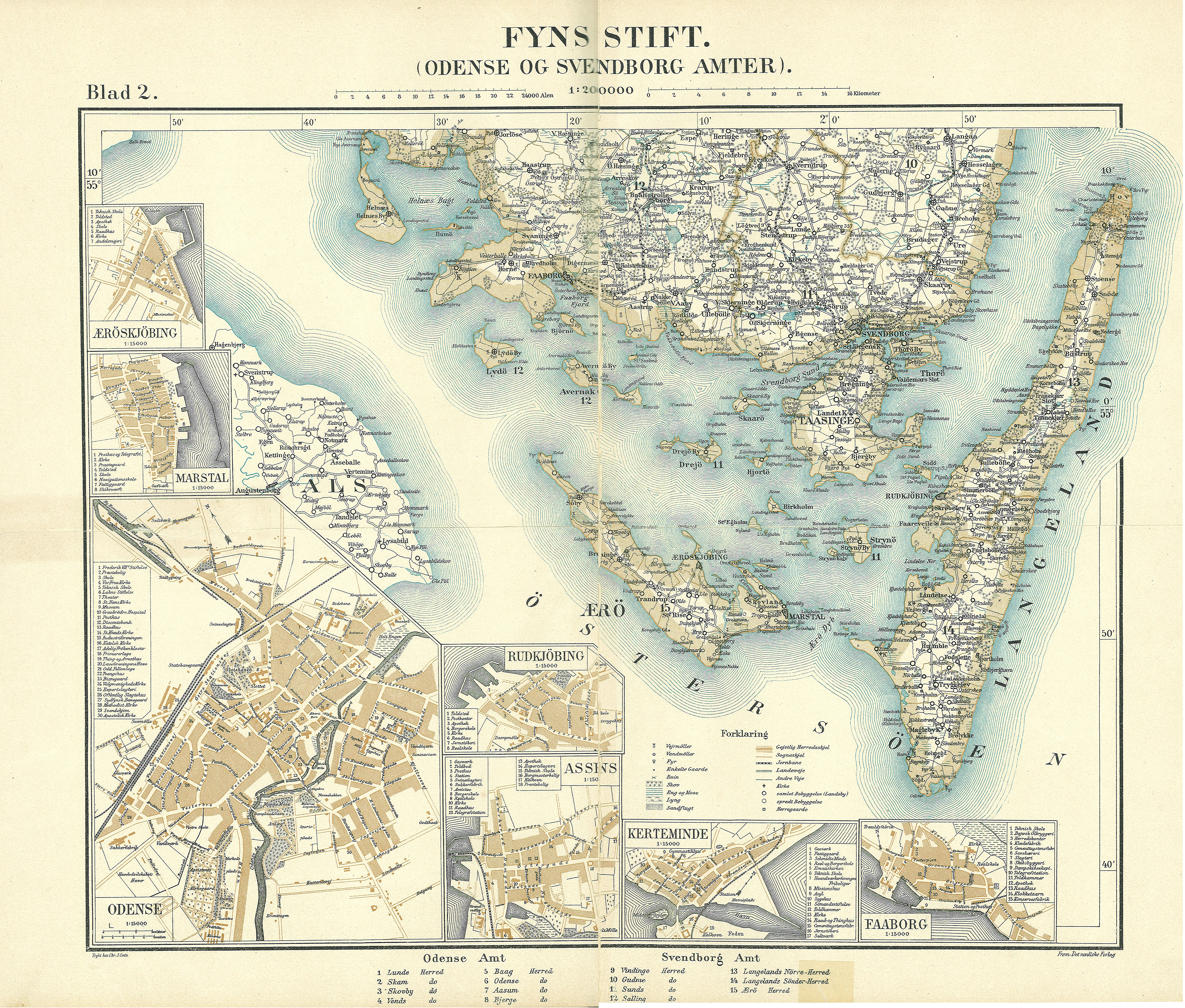 Map of the southern part of Svendborg County in Denmark